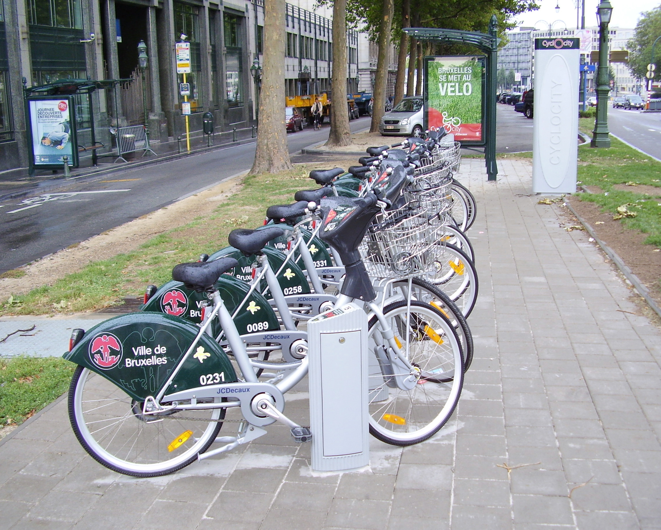 Description: Station publique de location de bicyclette (Cyclocity), (Bruxelles) Author: User:Ben2 Date of creation: 23 septembre 2006 Source: Photo personnelle